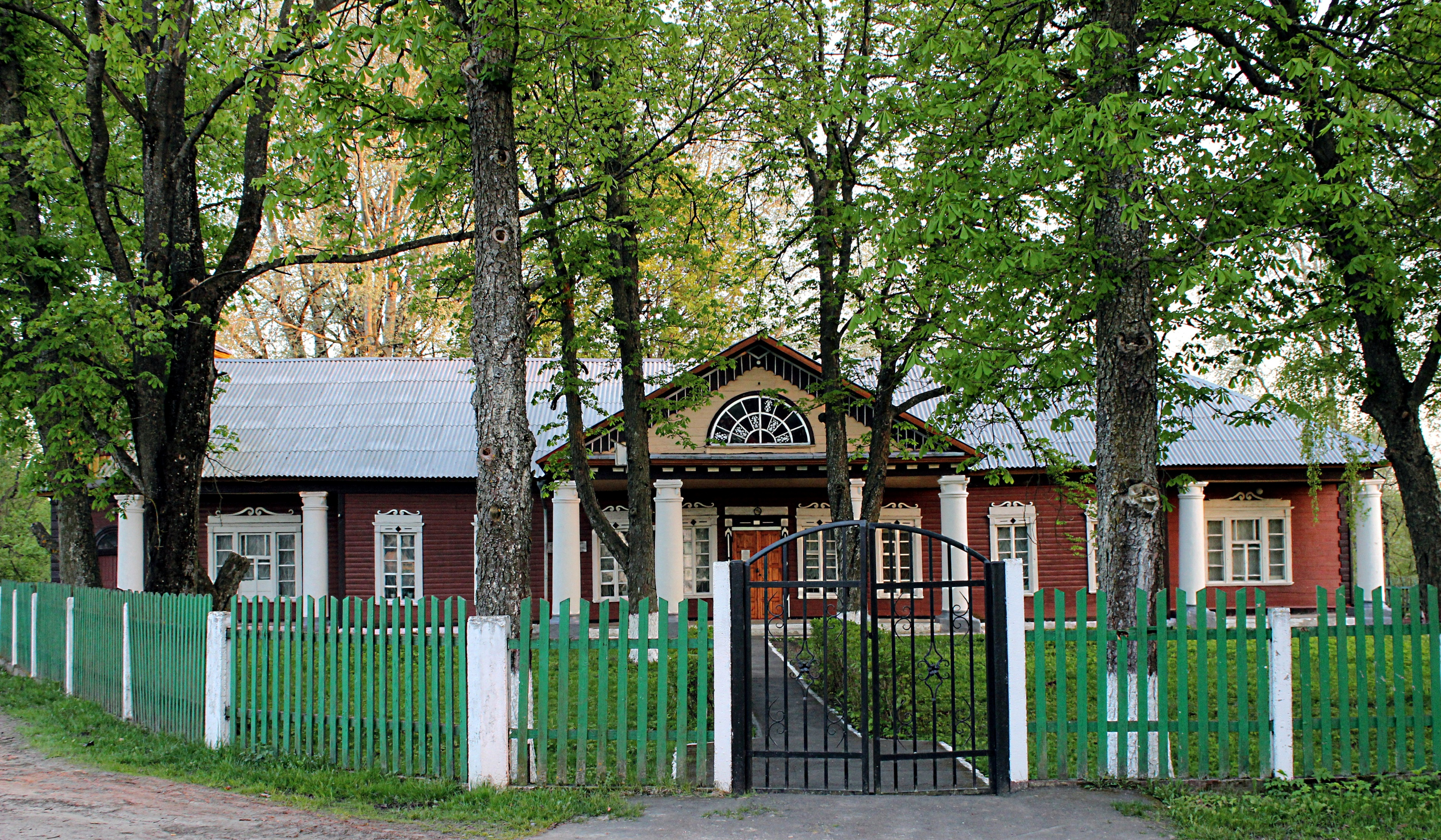 Manor of Bonch-Asmalowsky in Blon, Pukhavichy district